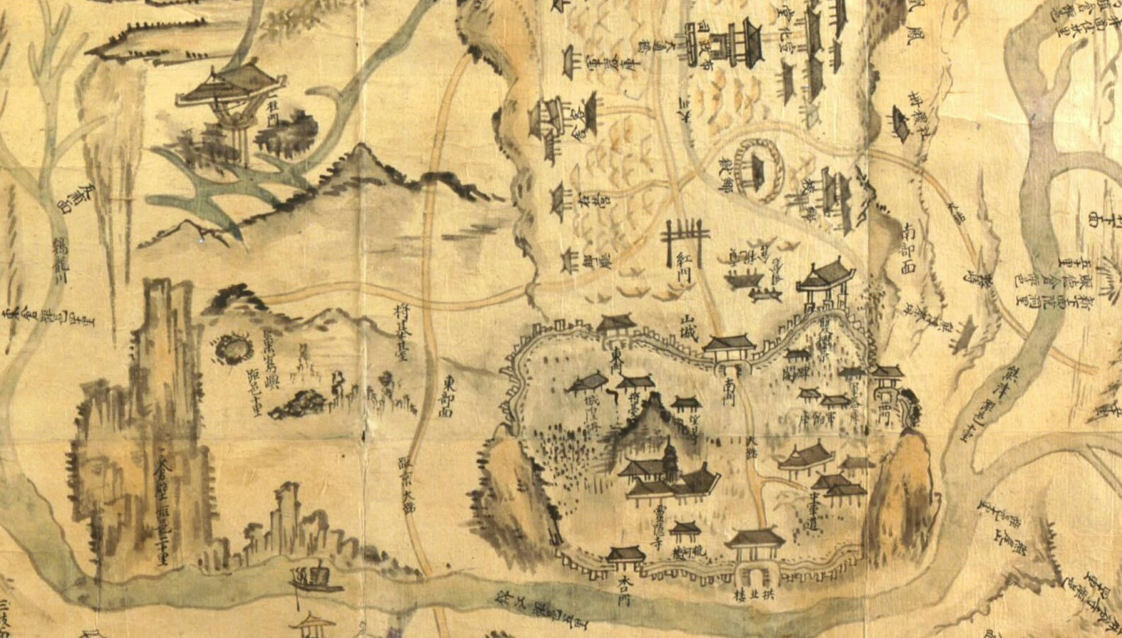 Map of Gongju area in King's library of Choseon dynasty